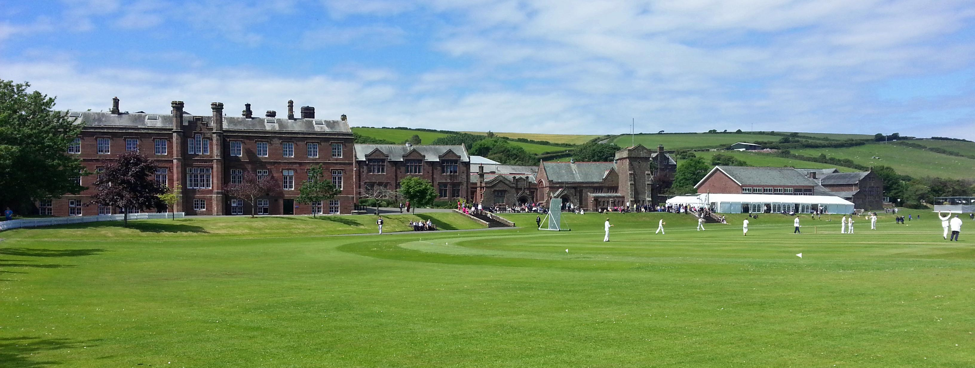 panorama of cricket match on the "first" pitch on the main campus. Speech day 2014